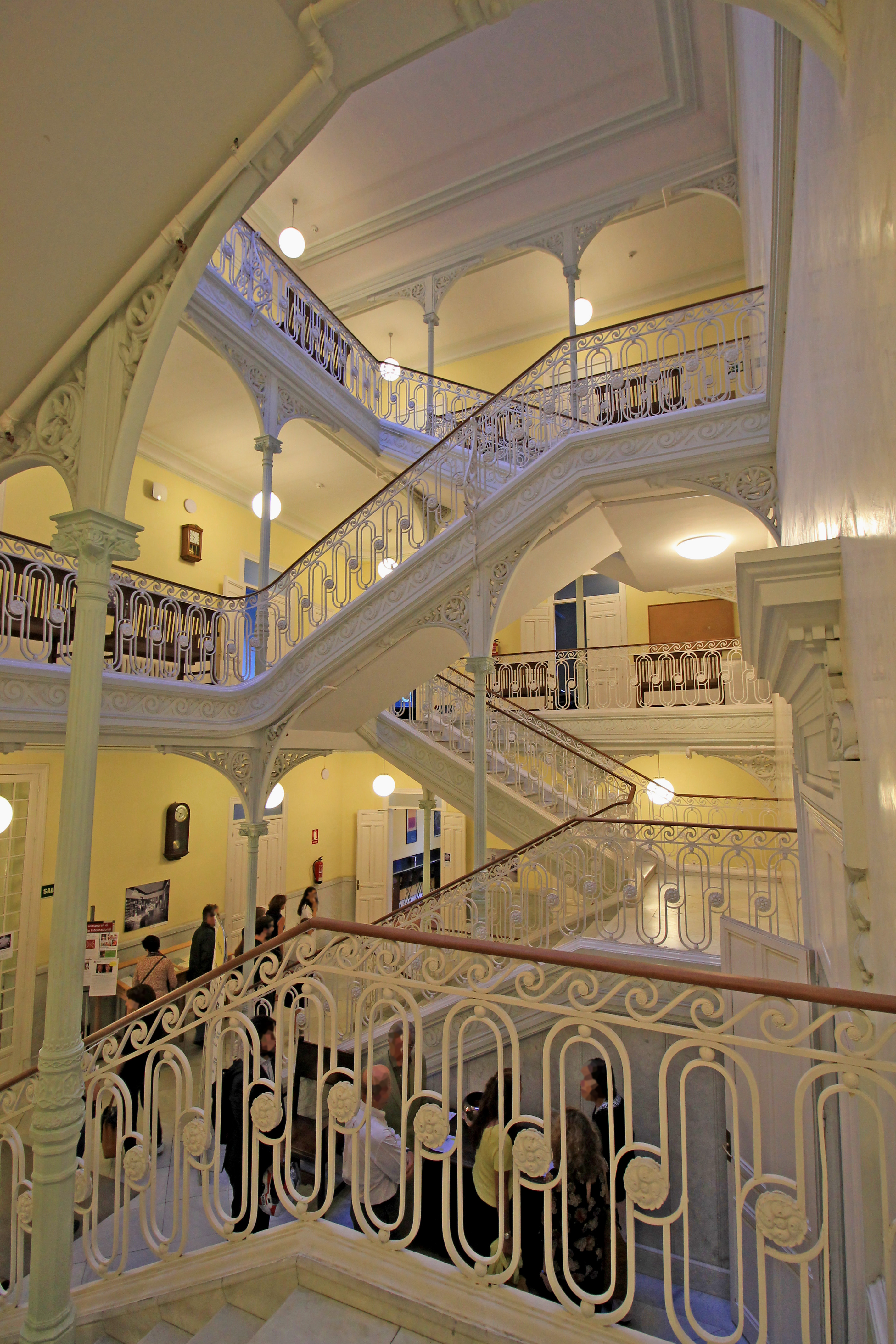 Interior of the International Institute in Madrid (Spain).